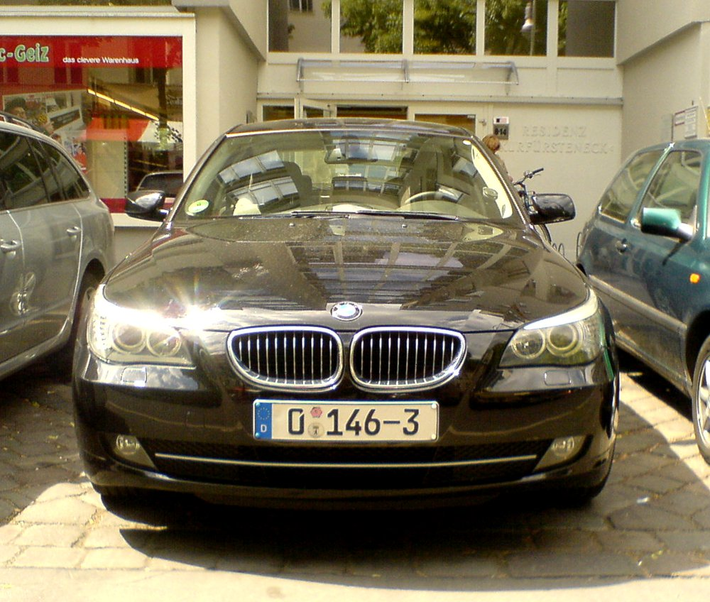 Diplomatic licenseplate of Embassy of Venezuela in Germany